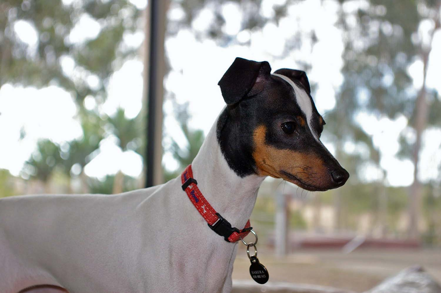 Bernie Lindsey, my dog